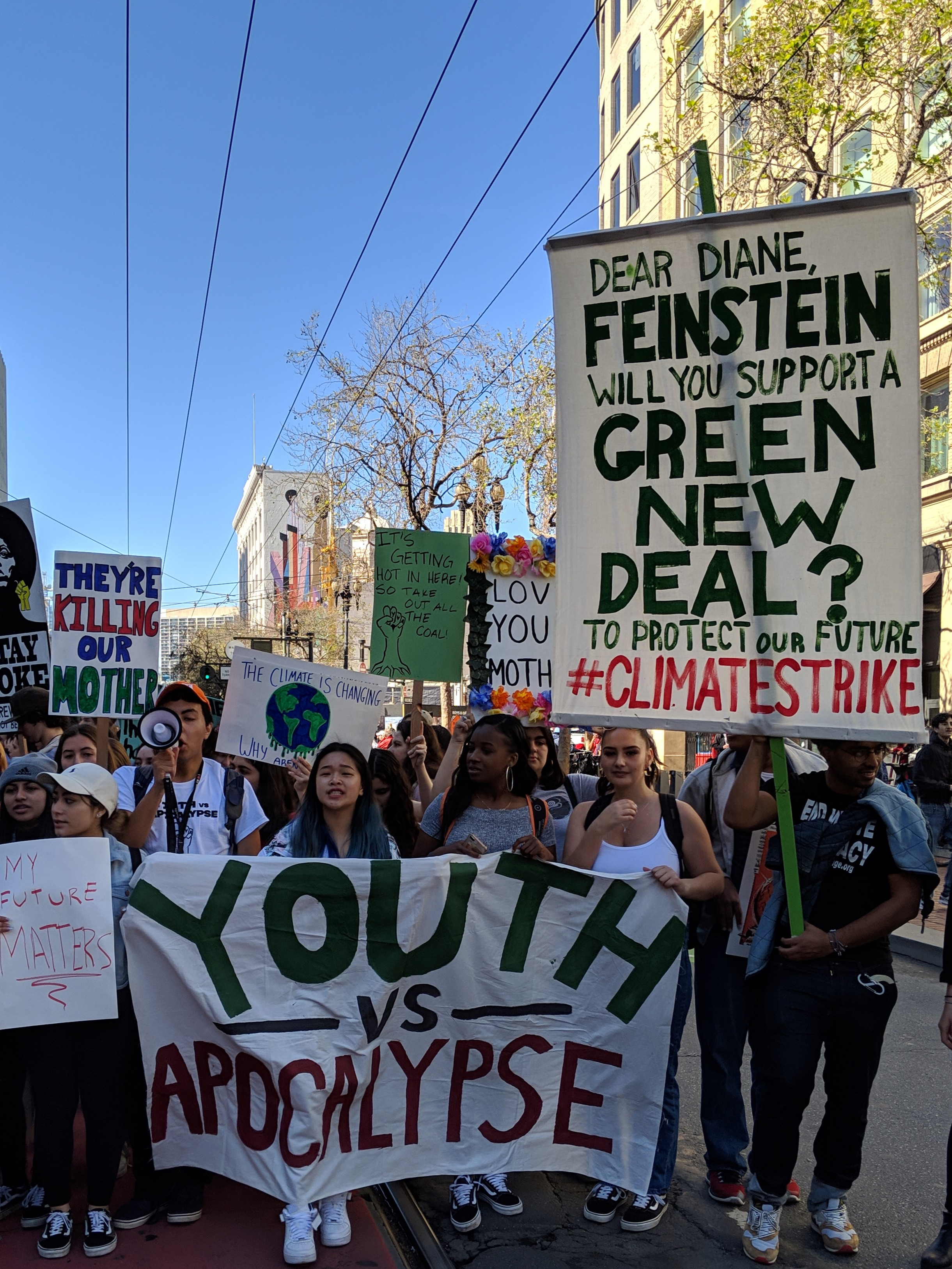 Protesters march with signs along Market Street during the San Francisco Youth Climate Strike, on 15 March 2019.